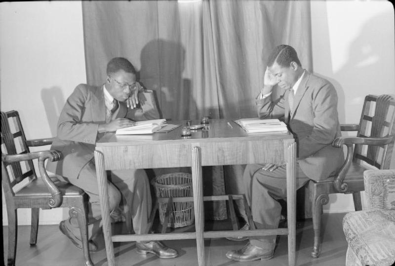 Colonial Students in Edinburgh- Accommodation For Empire Students at Hope Terrace, Edinburgh, Scotland, 1942 Two African students make the most of the study facilities at Colonial House, as they read at a desk.